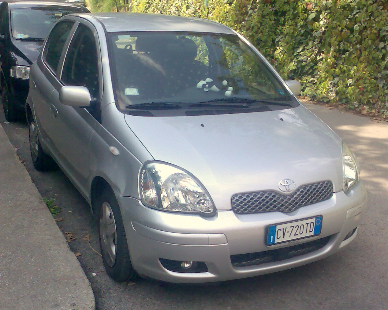 Toyota Yaris MK1